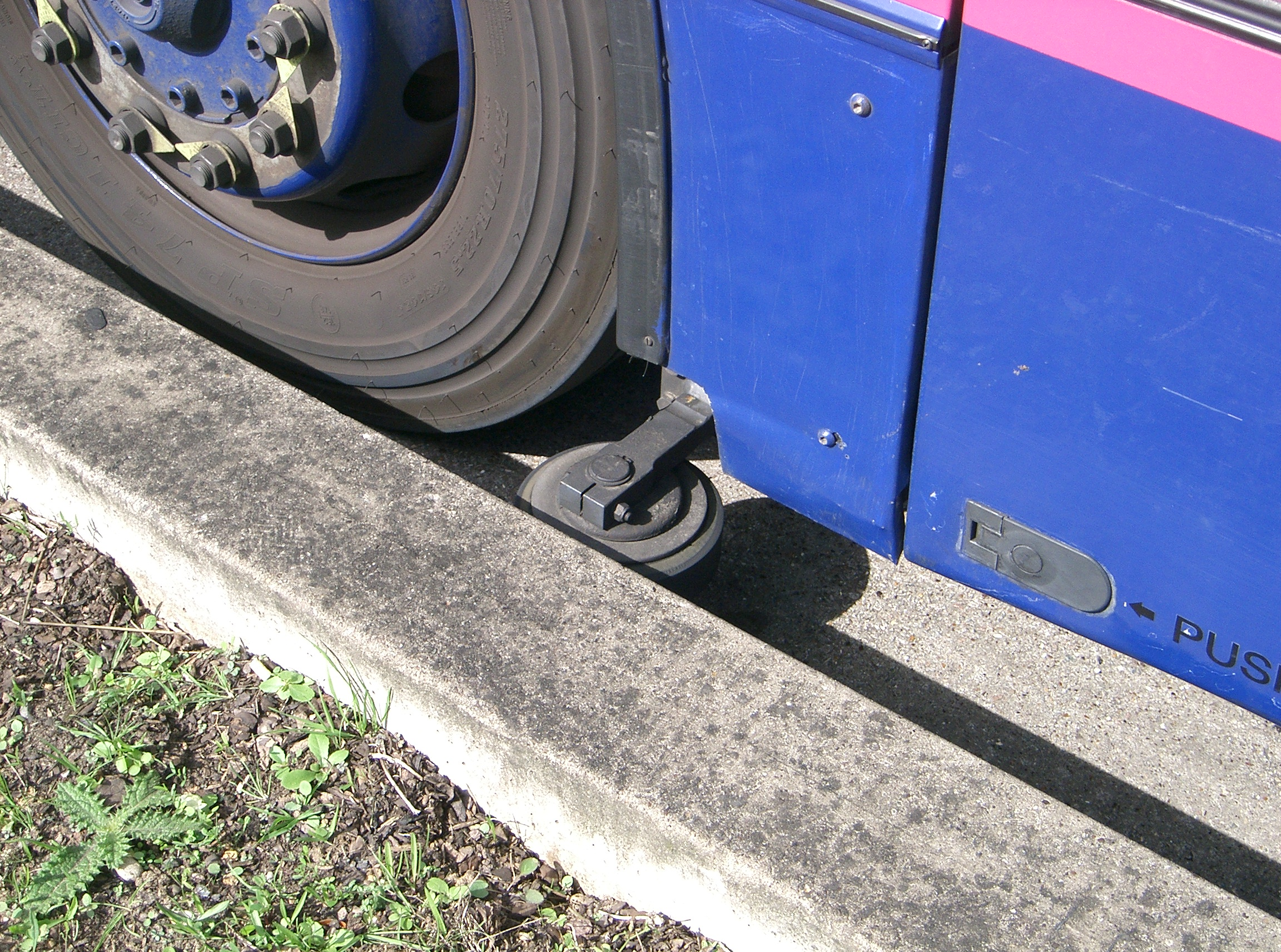 Close up view of a guidewheel on a bus on the Ipswich kerb guided busway, England, summer 2006. Photographed by SP Smiler.